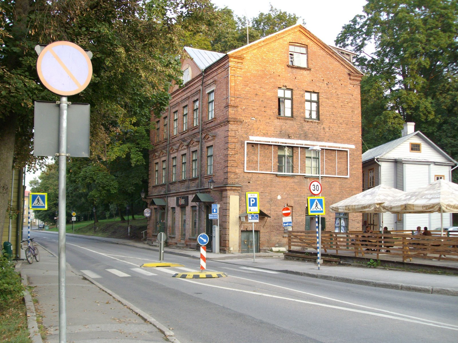 Pub Krooks on Jakobi street, Tartu.